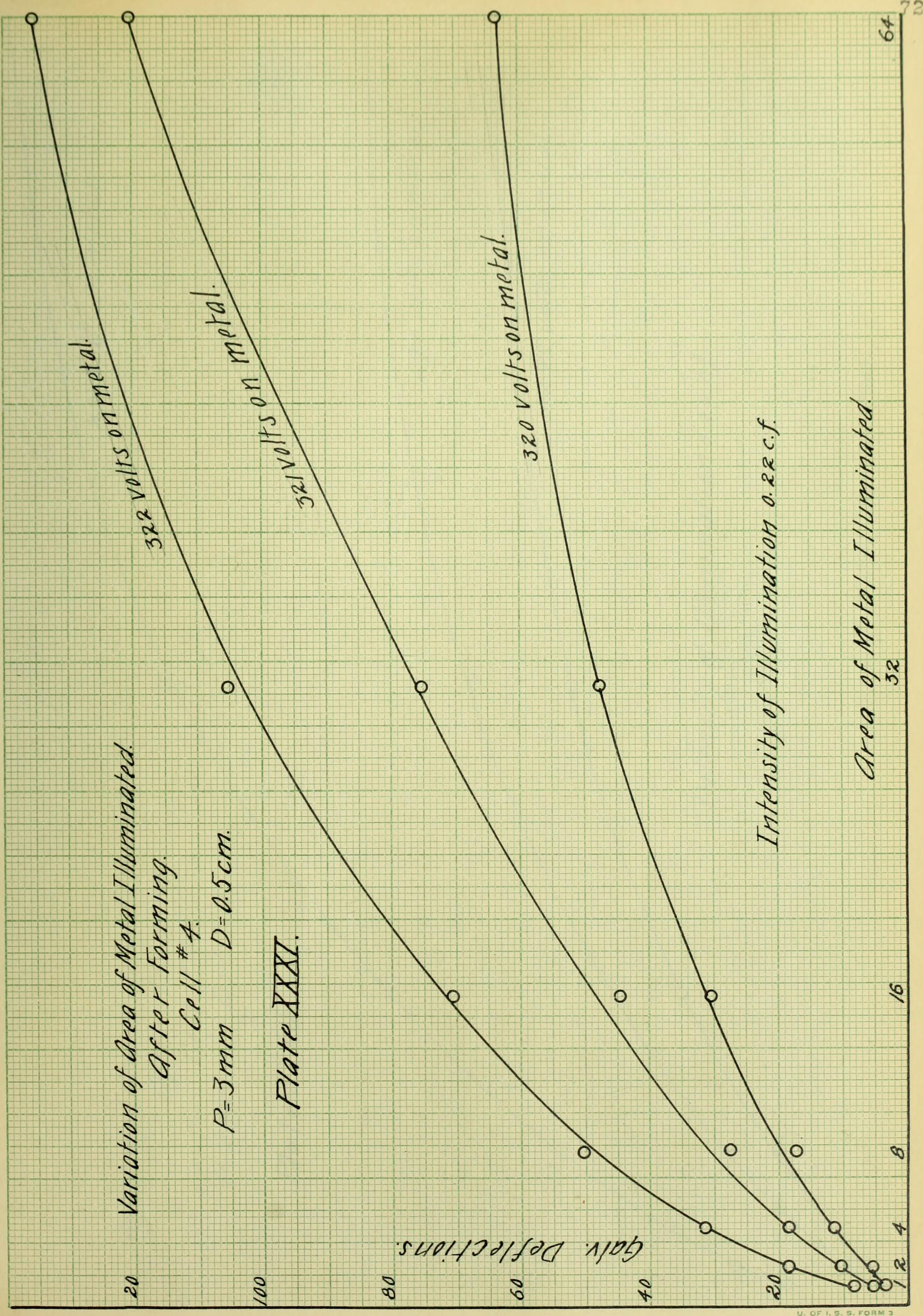 Title: Conditions of sensibility of photo-electric cells with alkali metals and hydrogen Year: 1912 (1910s) Authors: Kemp, Jacob Garrett, 1877- Subjects: Photometry Electrons Photoelectric cells Theses Publisher: Text Appearing Before Image: U. OF I. E. rOMM B Text Appearing After Image: '